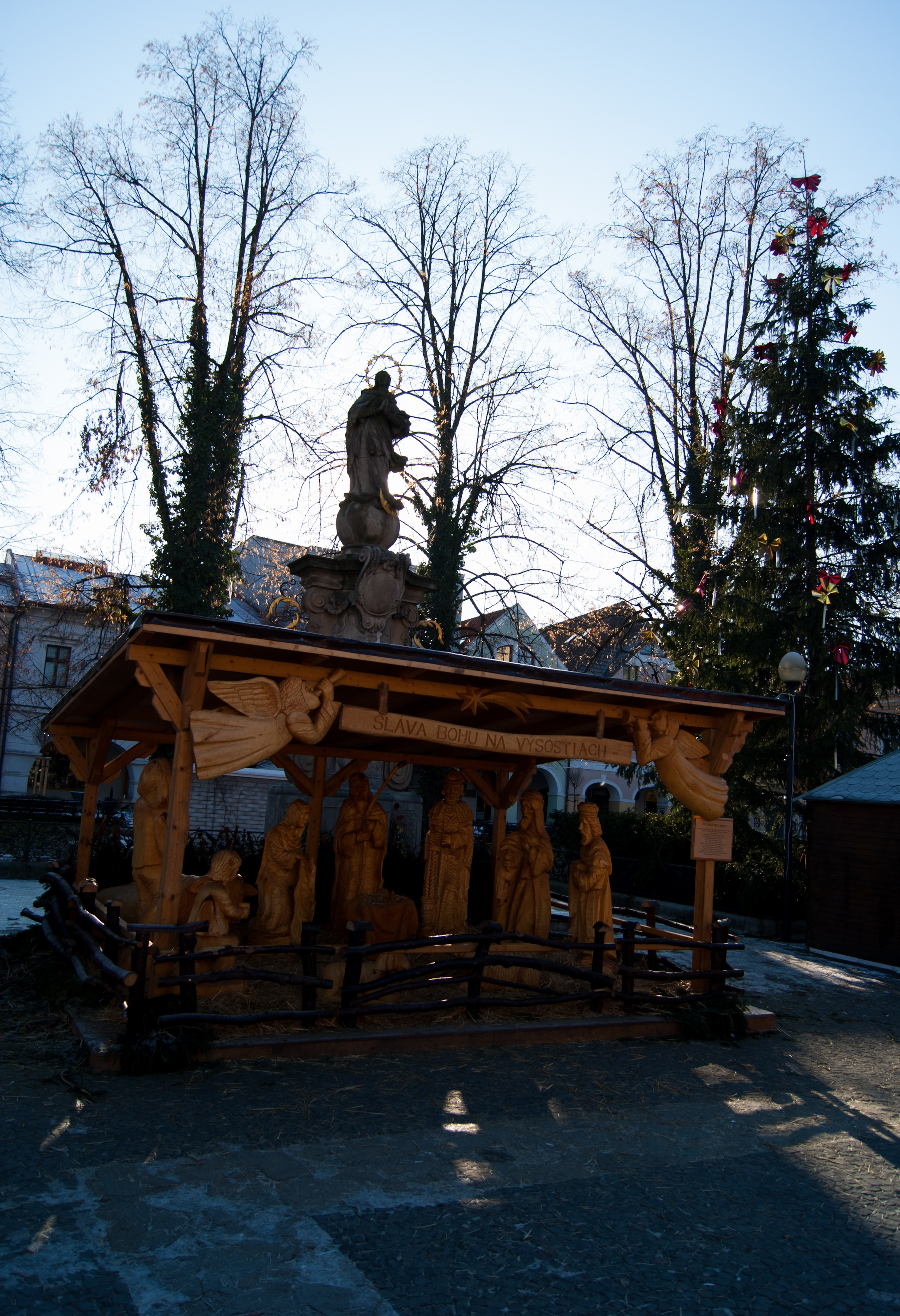 More informations about the city on !